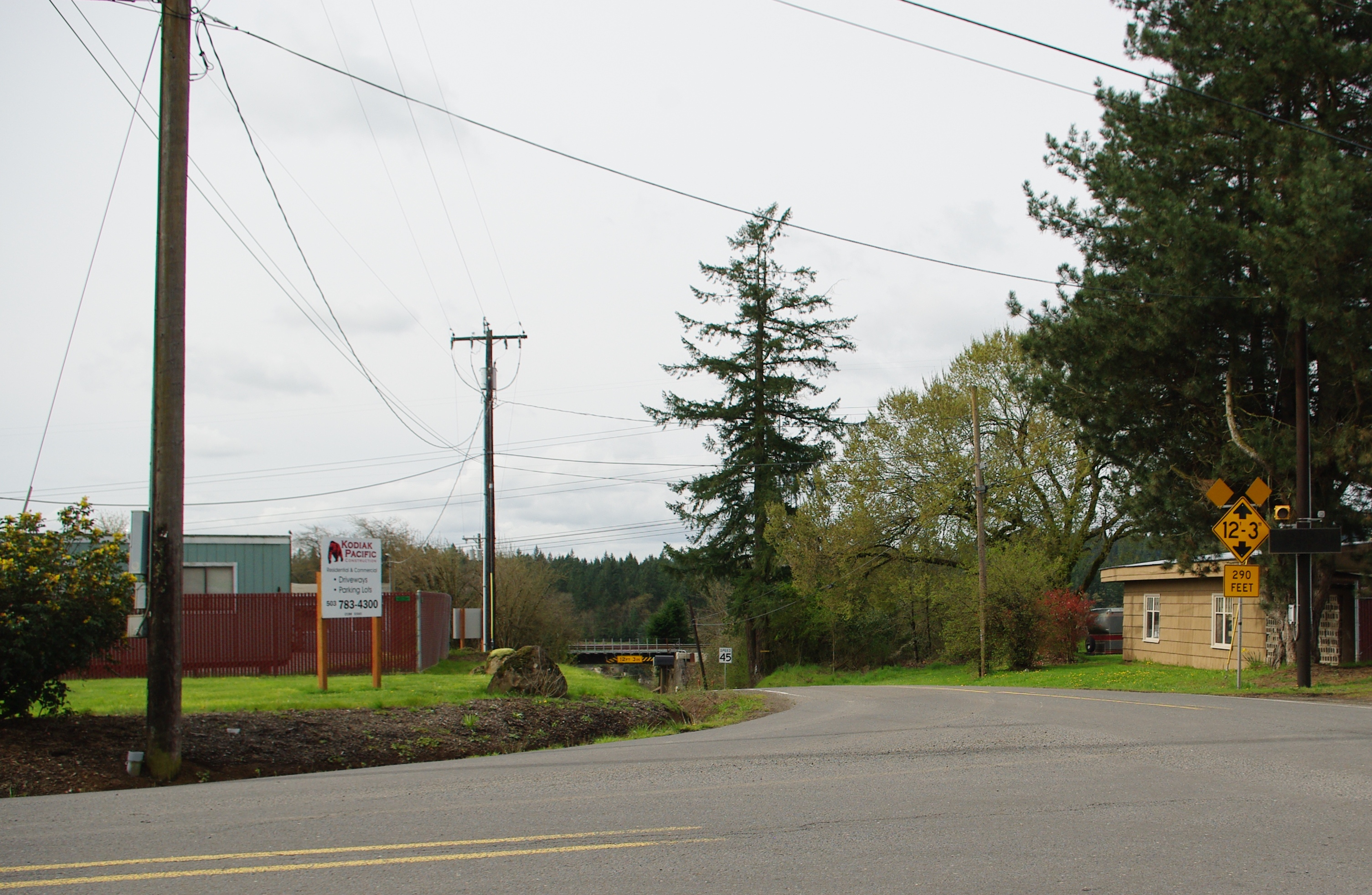 Intersection with railroad tressle in background at Mulloy, Oregon.